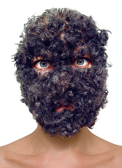 Fotografie Barbory Bálkové; Barbora Bálková´s photographs Personality rights warningAlthough this work is freely licensed or in the public domain, the person(s) shown may have rights that legally restrict certain re-uses unless those depicted consent to such uses. In these cases, a model release or other evidence of consent could protect you from infringement claims.